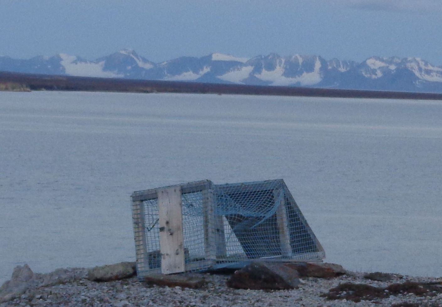 Fox trap in Brøggerhalvøya, Svalbard